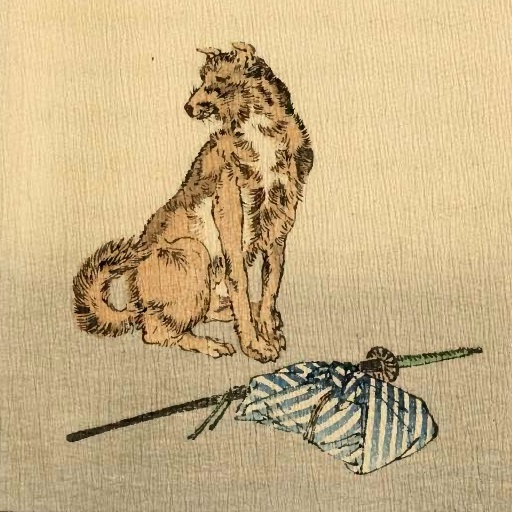 Illustration for Mrs. T. H. Smith's Schippeitaro (1888) by Suzuki Munesaburo. The book is unpaginated, and this illustration occurs after the text that reads: "'Schippeitaro is a strong and beautiful dog..(page over) We often see him following his master, he is a fine brave fellow.' The young.."